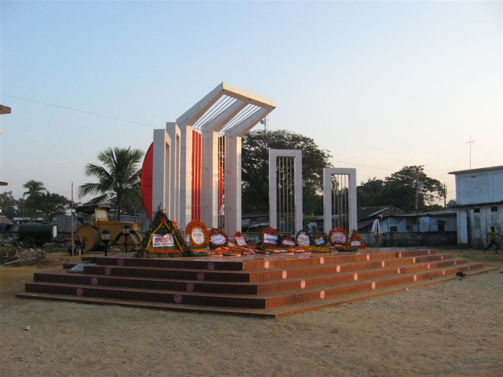 Shaheed Minar, Srimongol, Sylhet, Bangladesh.